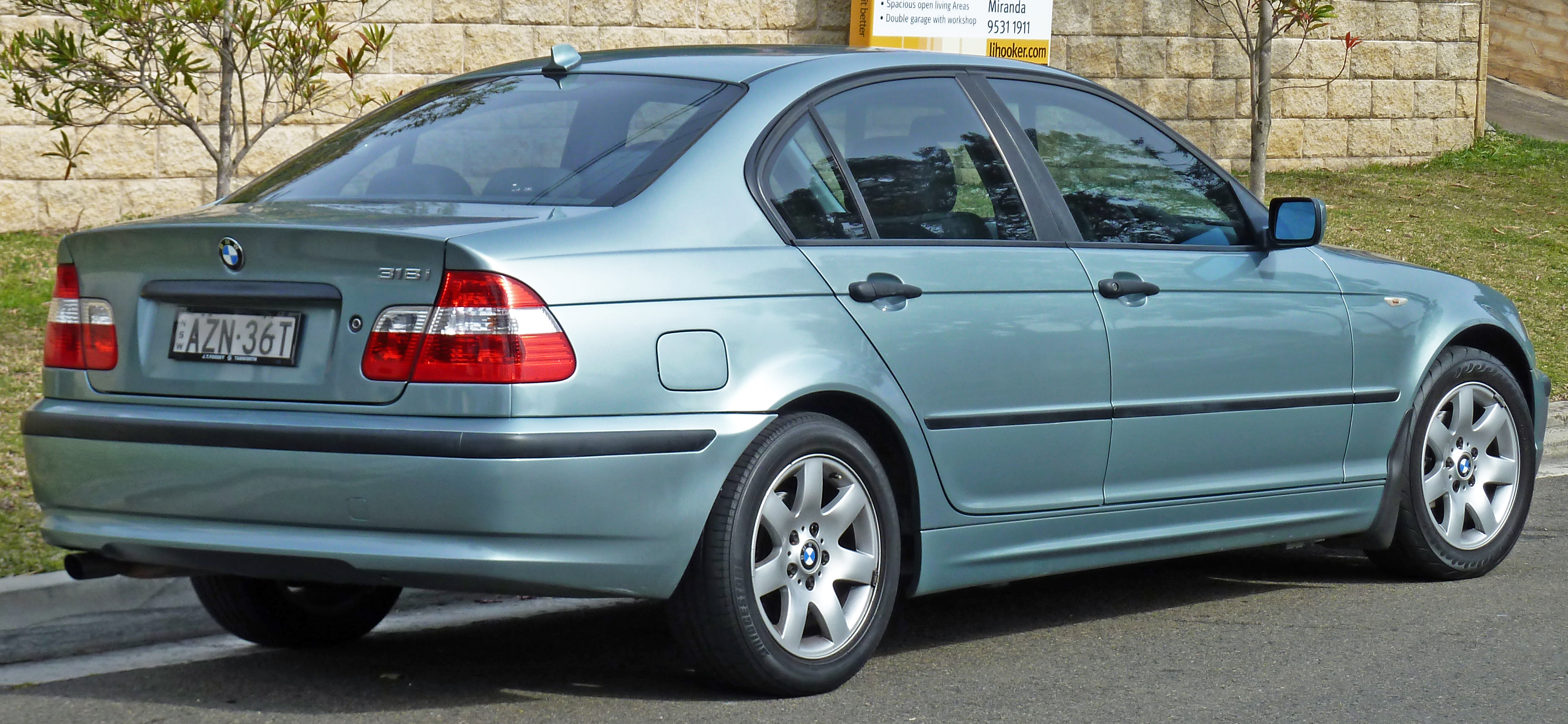 2001–2005 BMW 318i (E46) sedan. Photographed in Taren Point, New South Wales, Australia.